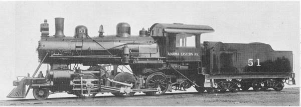 2-6-0 "Mogul" locomotive built by Montreal Locomotive Works as #51183 and carrying markings identifying it as Algoma Eastern Railway No. 51.